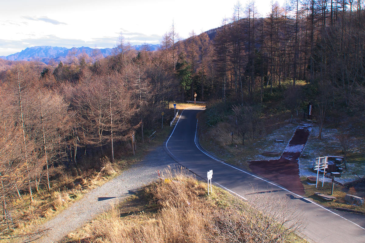 Route 299 Jikkoku-Toge pass.